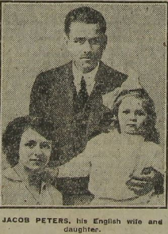 Jacob Peter (real name Yakov Peters) was a Latvian Communist Revolutionary, later one of the founders and chiefs of the Cheka.